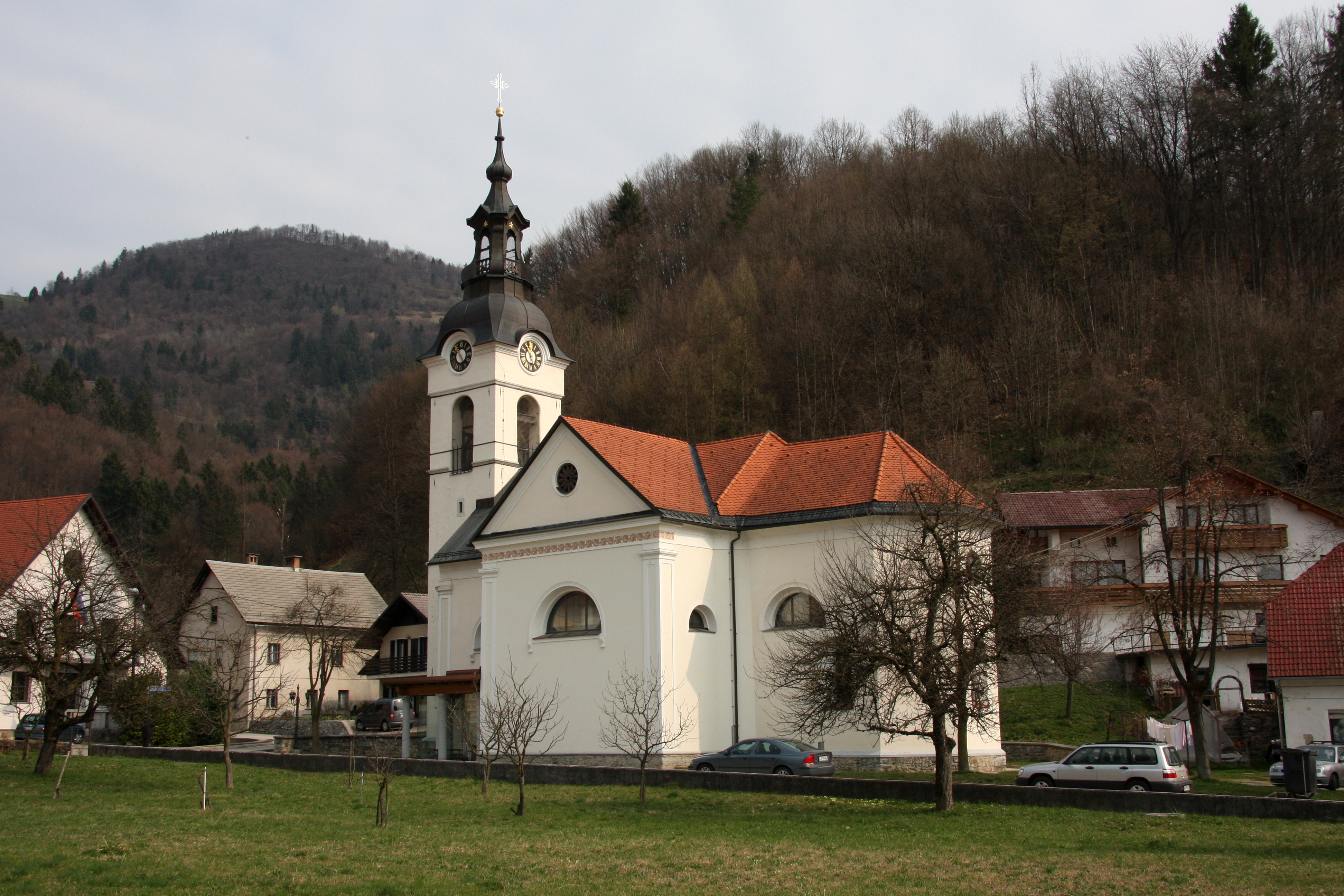 Parish church of st. Margaret, Horjul, Slovenia.